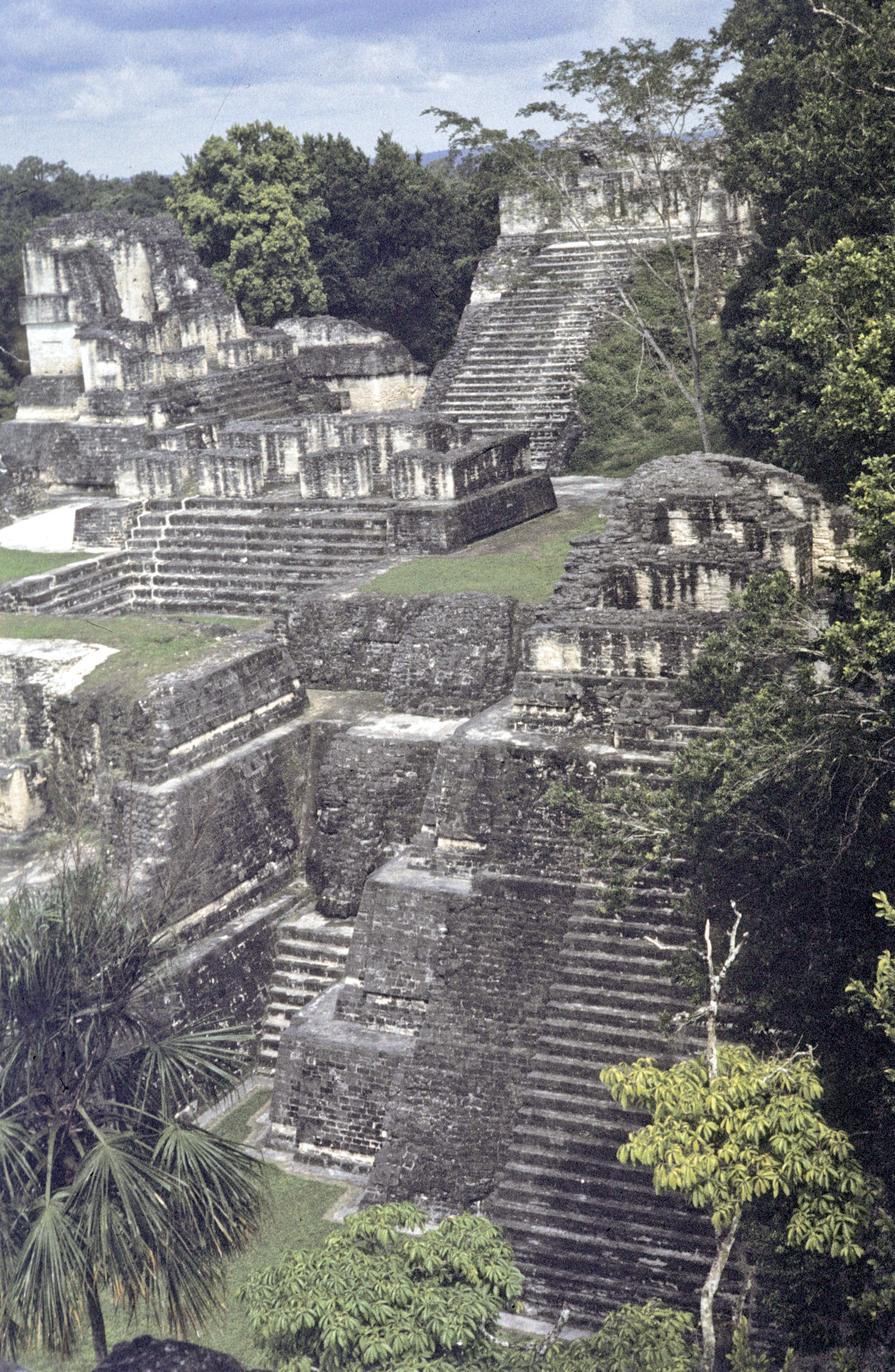 Image from Guatemala in 1980; North Acropolis in Tikal from the summit of Temple I. Temple 32 (Structure 5D-32) dominates the foreground, with the remains of Temple 33 (Structure 5D-33) to the left. Behind this, in the centre of the photo, is Temple 26 (Structure 5D-26). At back right, the tallest structure is Temple 22 (Structure 5D-22), Temple 23 (Structure 5D-23) is the tall temple to its left (facing right) and between the two and behind Temple 26 from this angle is the squat Temple 20 (Structure 5D-20).